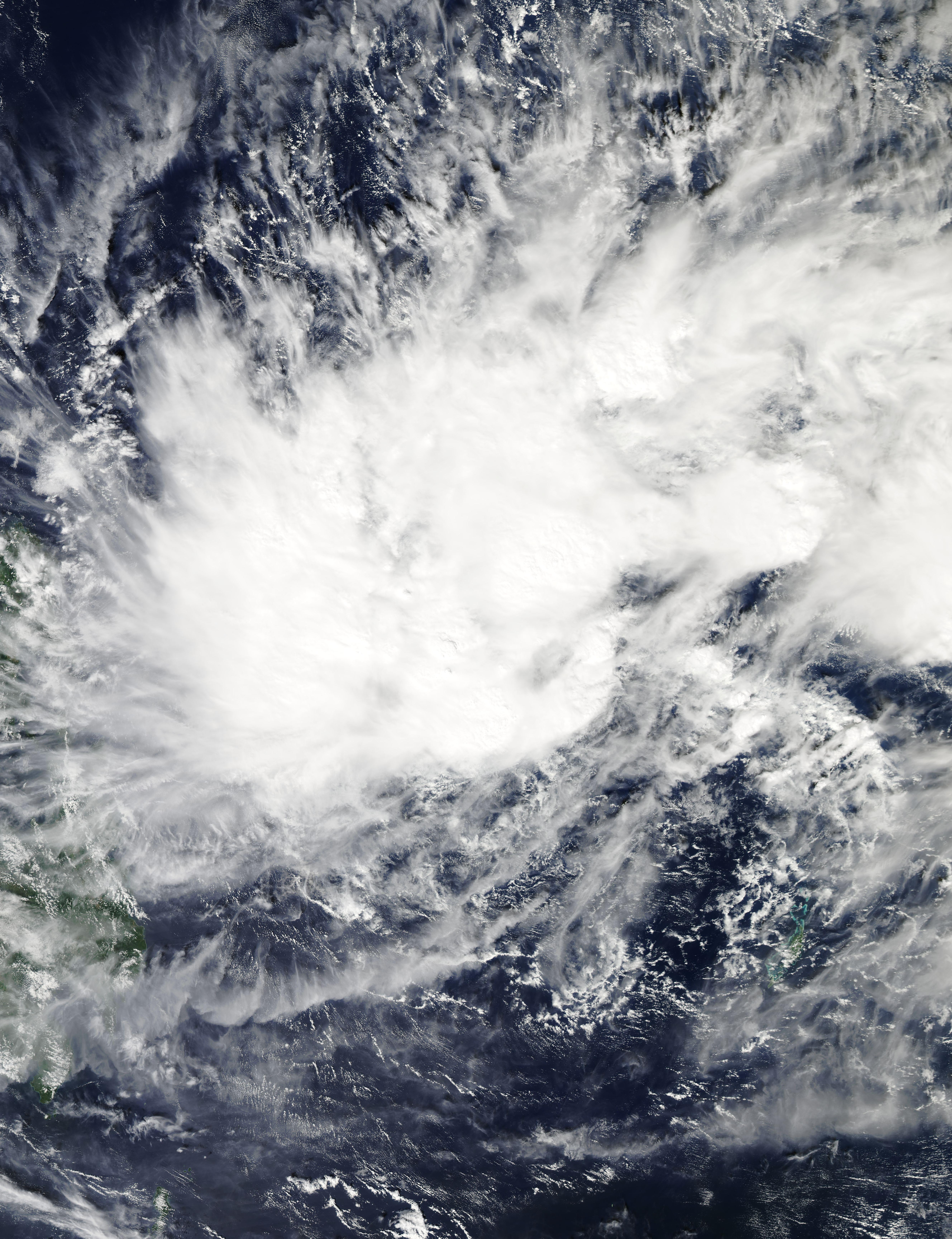 Tropical Depression Usman (35W) in the Philippine Sea